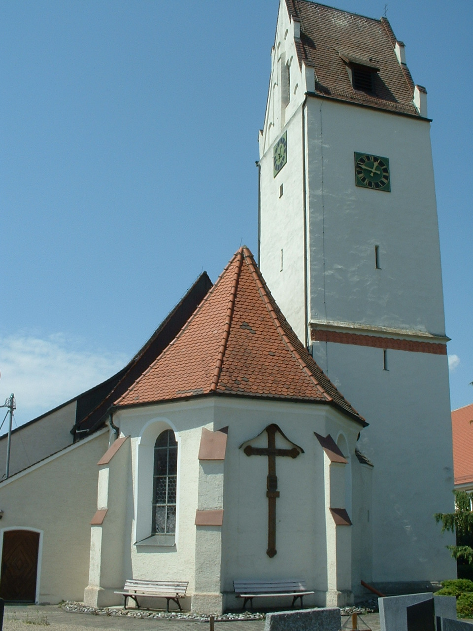 Stetten, parish church St Stephen in the municipality of Achstetten, Upper Swabia